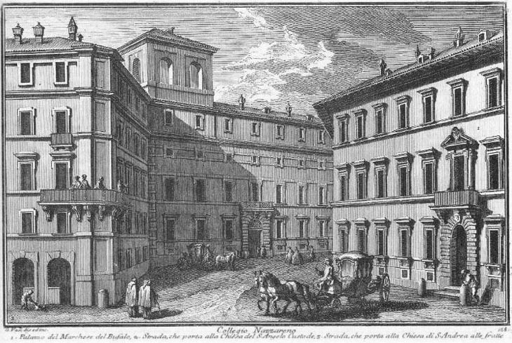 1) Palazzo del Bufalo; 2) Street leading to Chiesa dell'Angelo Custode; 3) Street leading to S. Andrea delle Fratte.